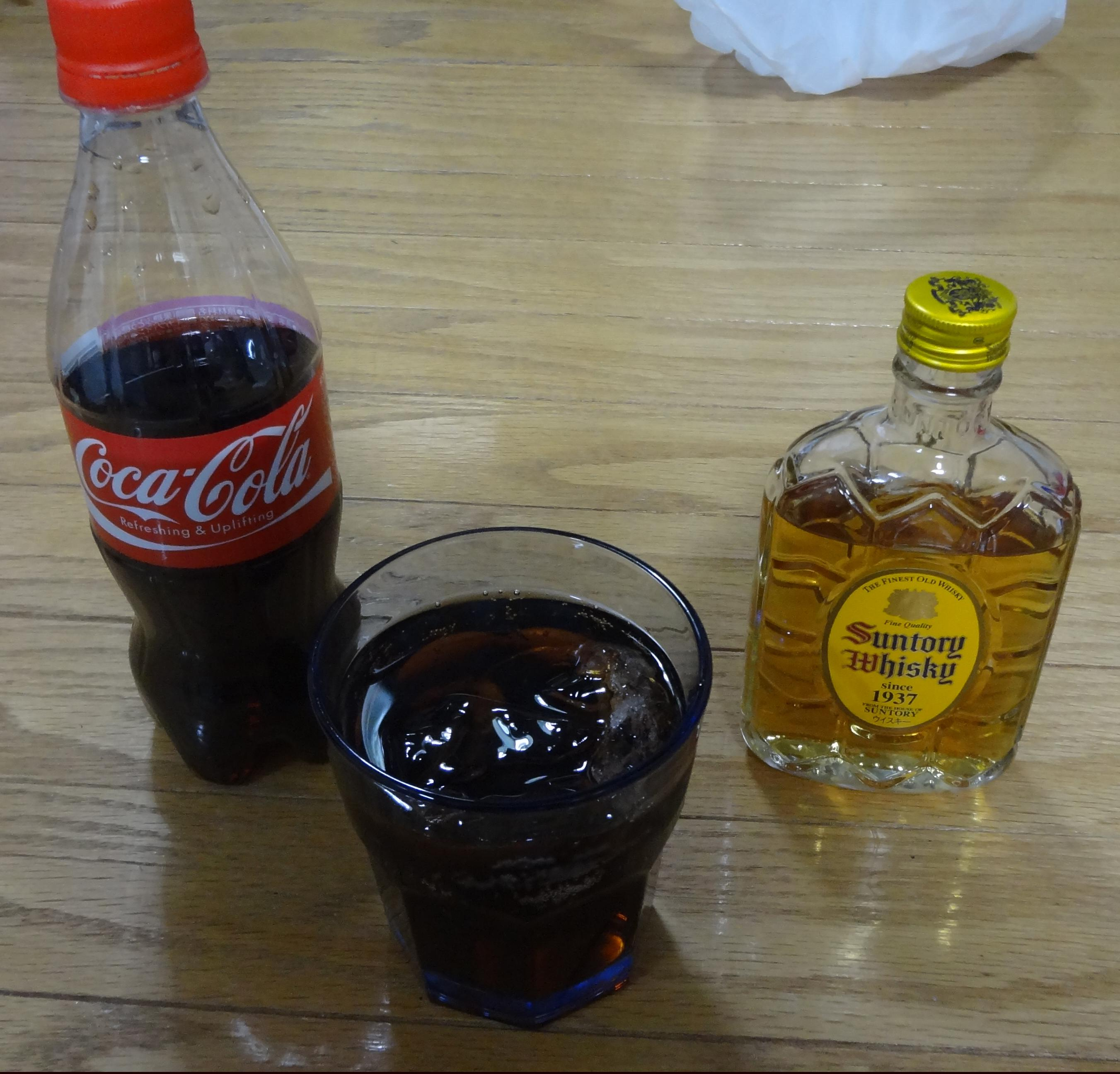 Whisky and Cola is a cocktail that mixed the whisky and cola.The used whisky of Suntory.